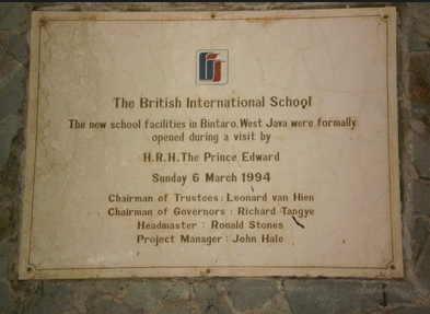 BISJ Plate